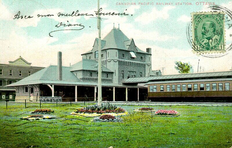 Postcard of the Canadian Pacific Railway station in Ottawa in 1908. Completed in 1901 and located in Lebreton Flats, this station (commonly known as the "Broad Street Station") replaced an earlier incarnation that was destroyed in the great Hull-Ottawa fire of 1900. The station was used until 1920, when CPR shifted its trains to the Grand Trunk Station (which became Union Station).